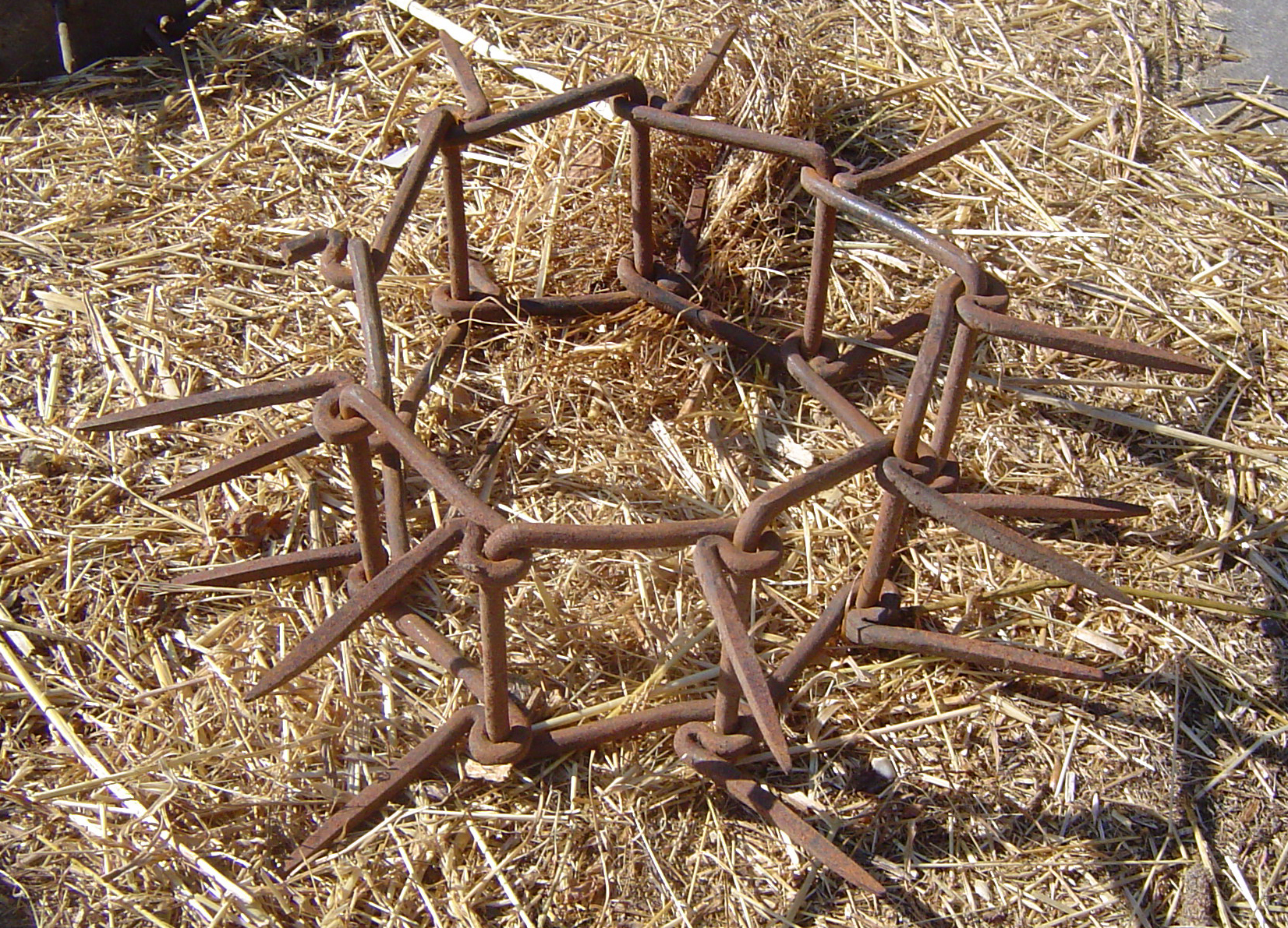 A roccale or vreccale, the spiked iron collar which is worn to protect the necks of Pastore Maremmano-Abruzzese ("Maremman Shepherd") dogs when used for their traditional purpose of defending sheep against wolves and other predators. Photographed at Porto Vecchio, Ponzano Romano, province of Rome, Lazio, Italy.